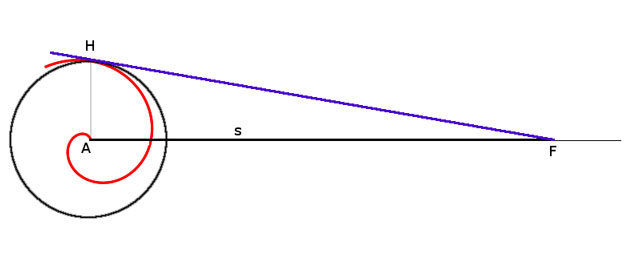 Archimedean spiral and Rectification of Circumference